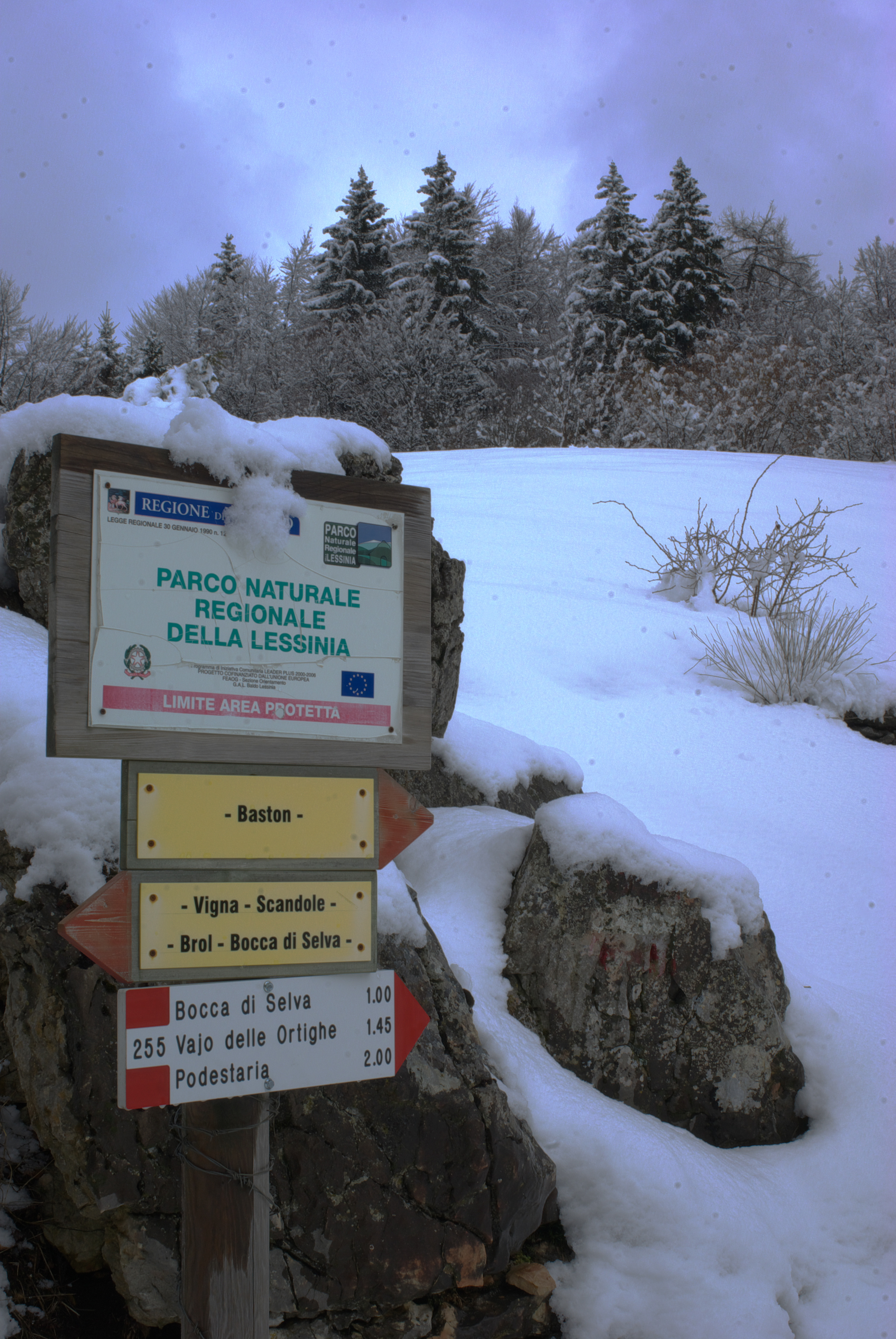 Bosco Chiesanuova (Grietz Dossetti Tinazzo) Lessinia VR Italy 2013-04-01 photo CTG ACA LESSINIA Paolo Villa